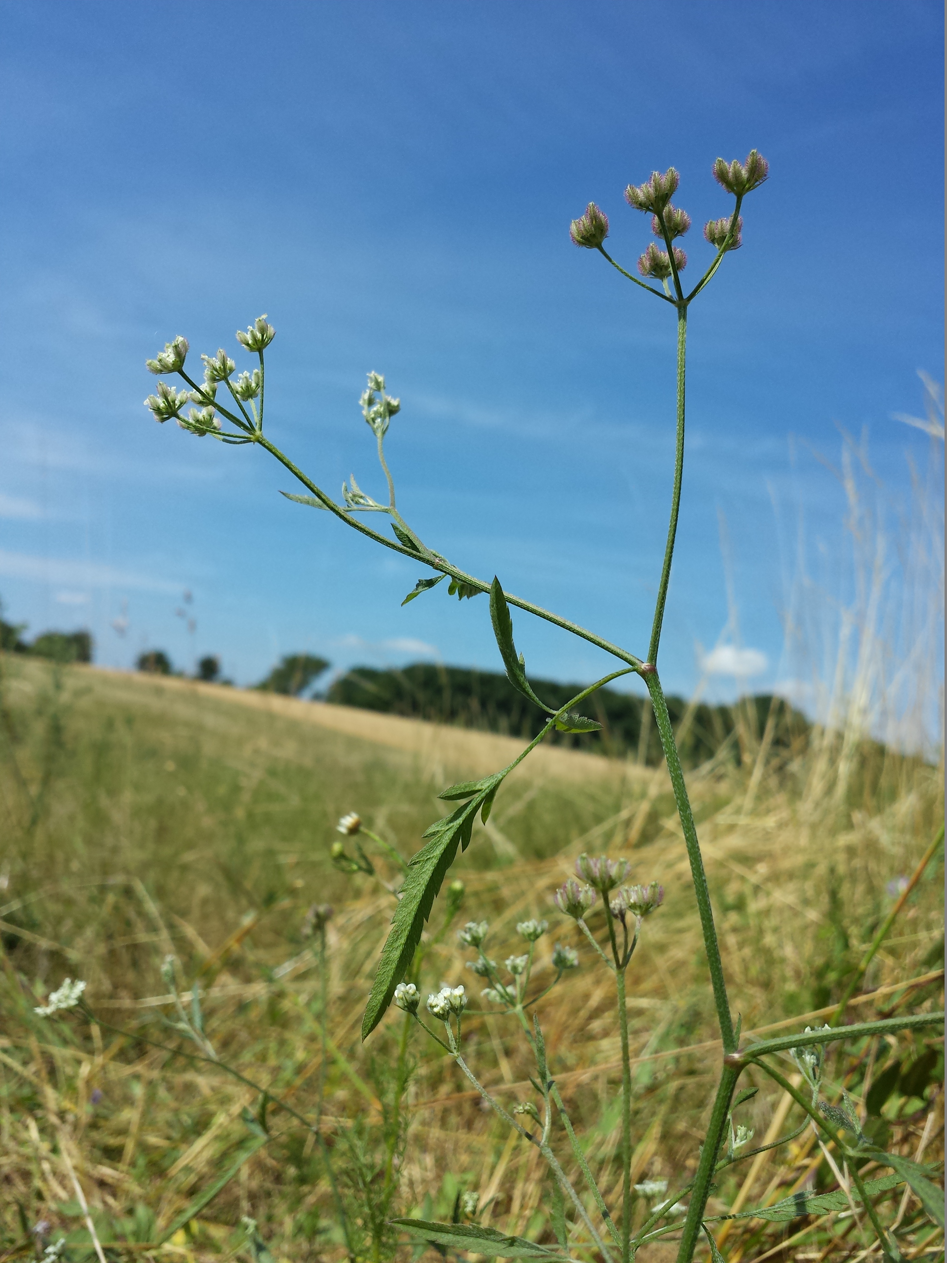 Habitus Taxon: Torilis arvensis (sensu Fischer et al. EfÖLS 2008 ISBN 978-3-85474-187-9) Location: near Alte Schanzen, Floridsdorf, Vienna - ca. 225 m a.s.l. Habitat: fallow land